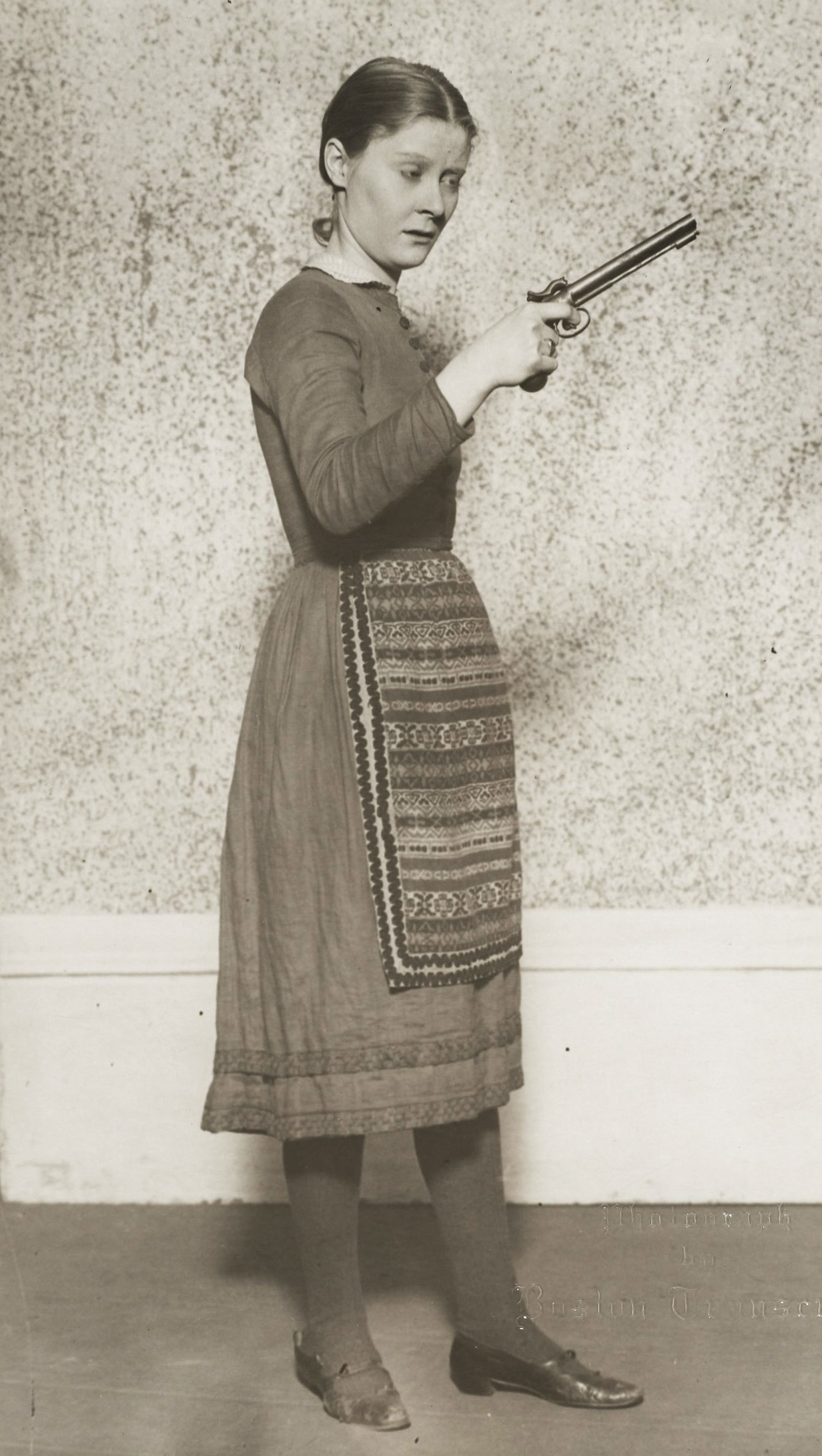 Photograph of Peg Entwistle, posing in costume for a scene in Wild Duck. Circa 1925. Cropped version. Theatrical Portrait Photographs, TCS 28, Harvard Theatre Collection, Houghton Library, Harvard University